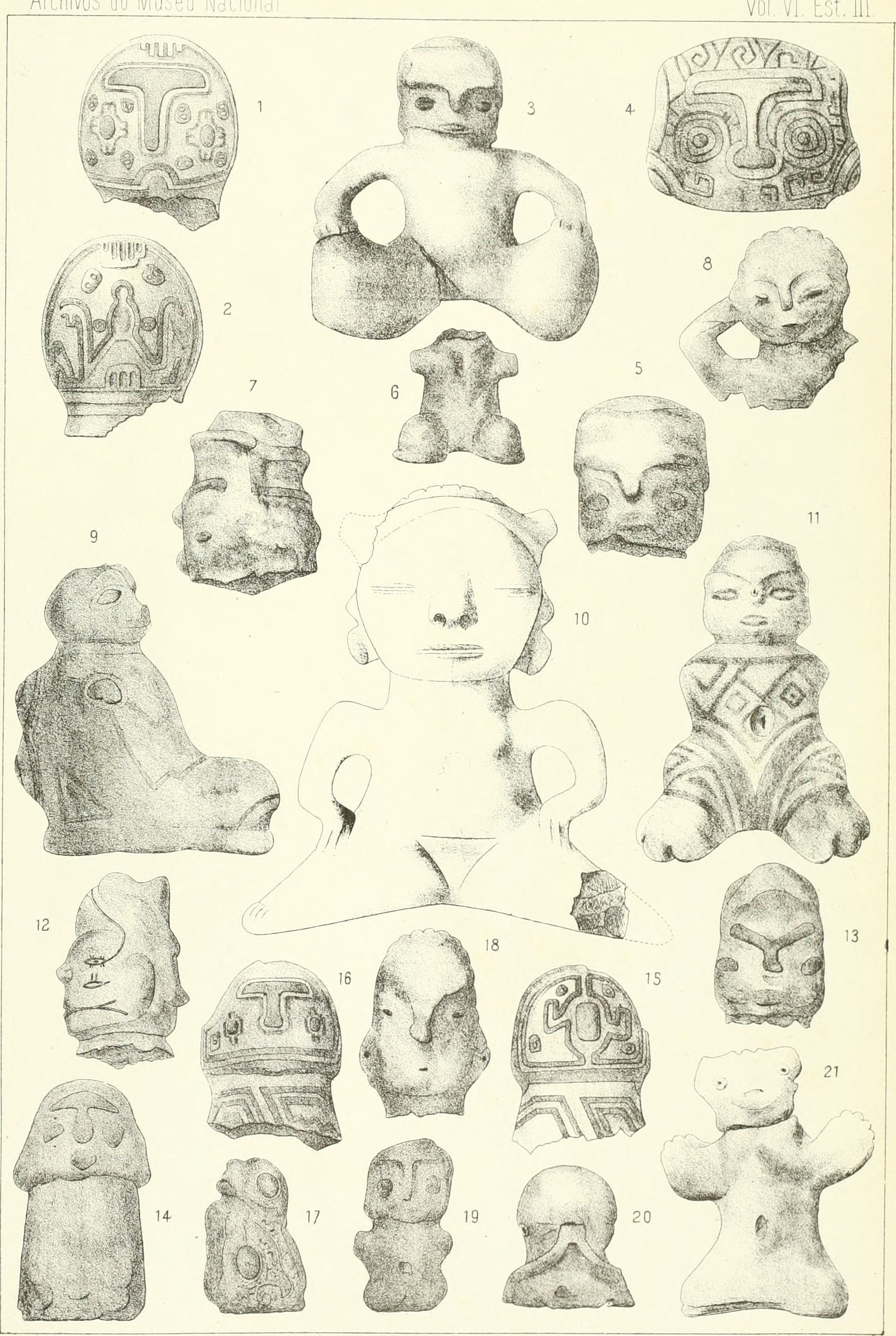 Title: Archivos do Museu Nacional Year: 1876-1935 (1870s) Authors: Museu Nacional (Brazil) Subjects: Science; Natural history -- Brazil; Ethnology -- Brazil Publisher: Rio de Janeiro : Imprensa Industrial Text Appearing Before Image: Archivos fJo Muóeíj Naciu Vol.VI.Est.lll Text Appearing After Image: Ídolos do A/aazonas.